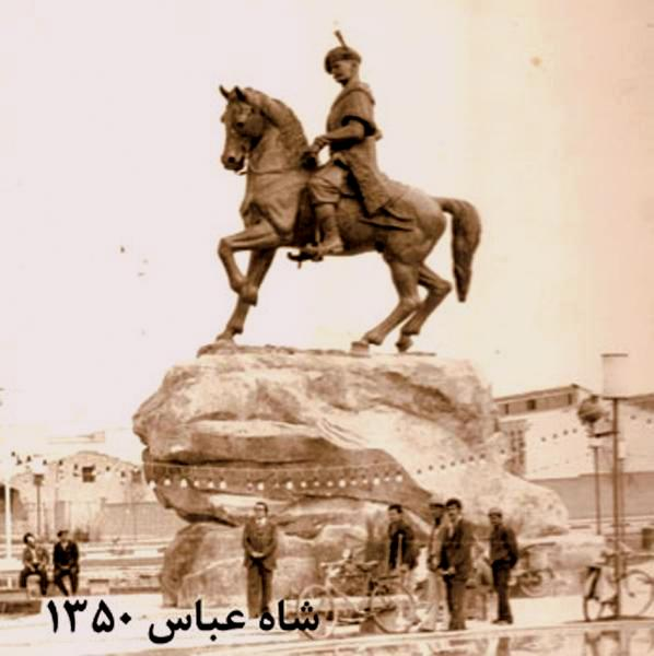 The Statue Shah Abbas I in Isfahan which was up until the Iranian Revolution in 1979.